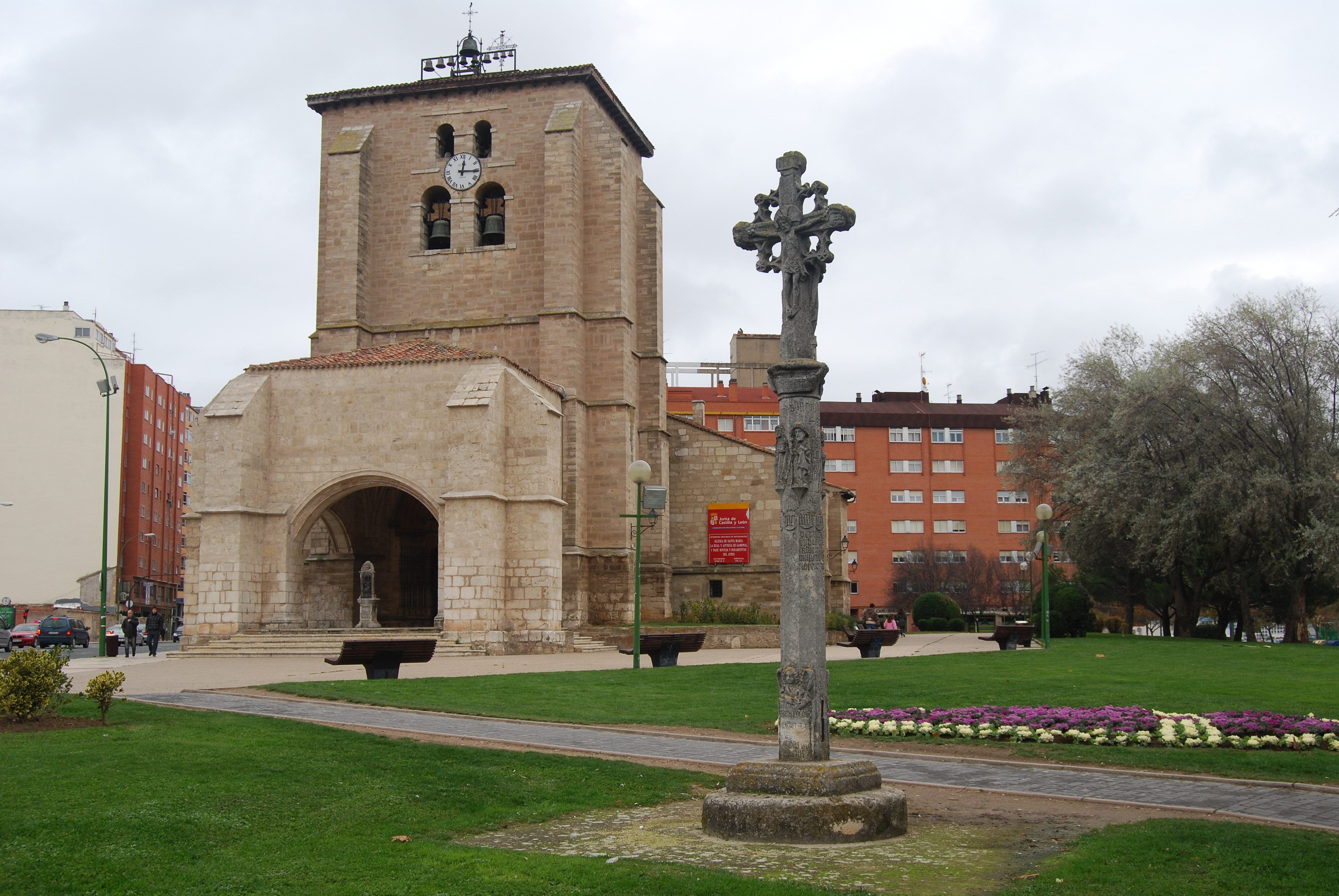 Church of Nuestra Señora Santa María la Real y Antigua de Gamonal, in Burgos (Spain).